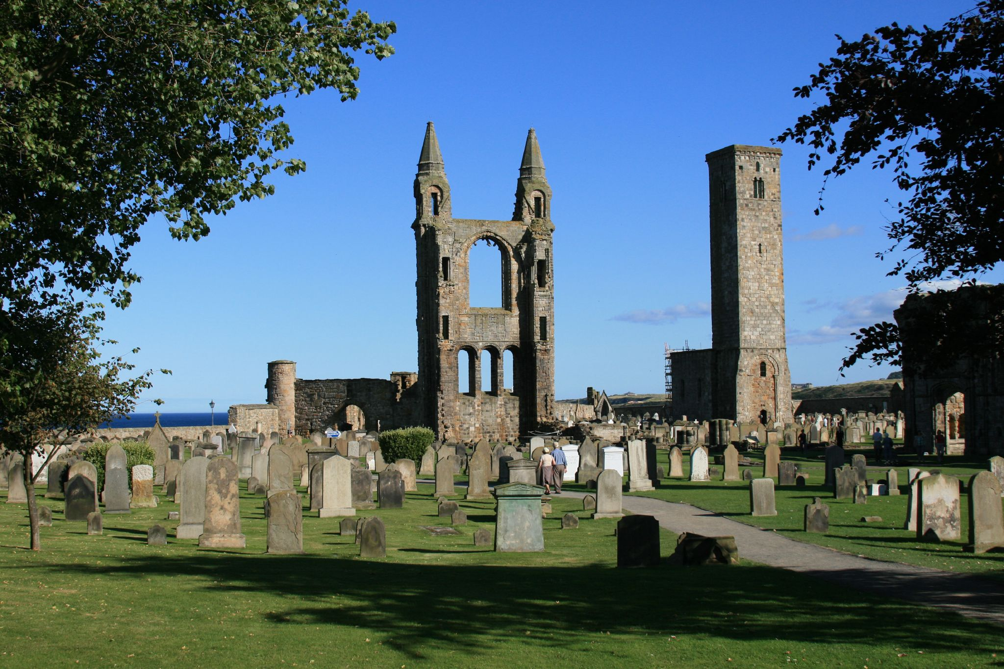 St Andrews cathedral and St Rules tower, Scotland.